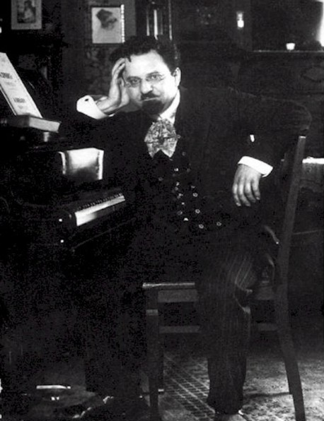 A photograph of the famous composer Sigfrid Karg-Elert.